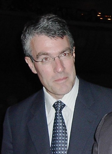 Mark Dreyfus, Australian politician.